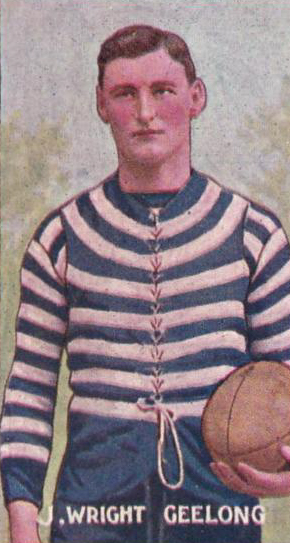 Cigarette card of Jack Wright from the Sniders & Abrahams 1906 series